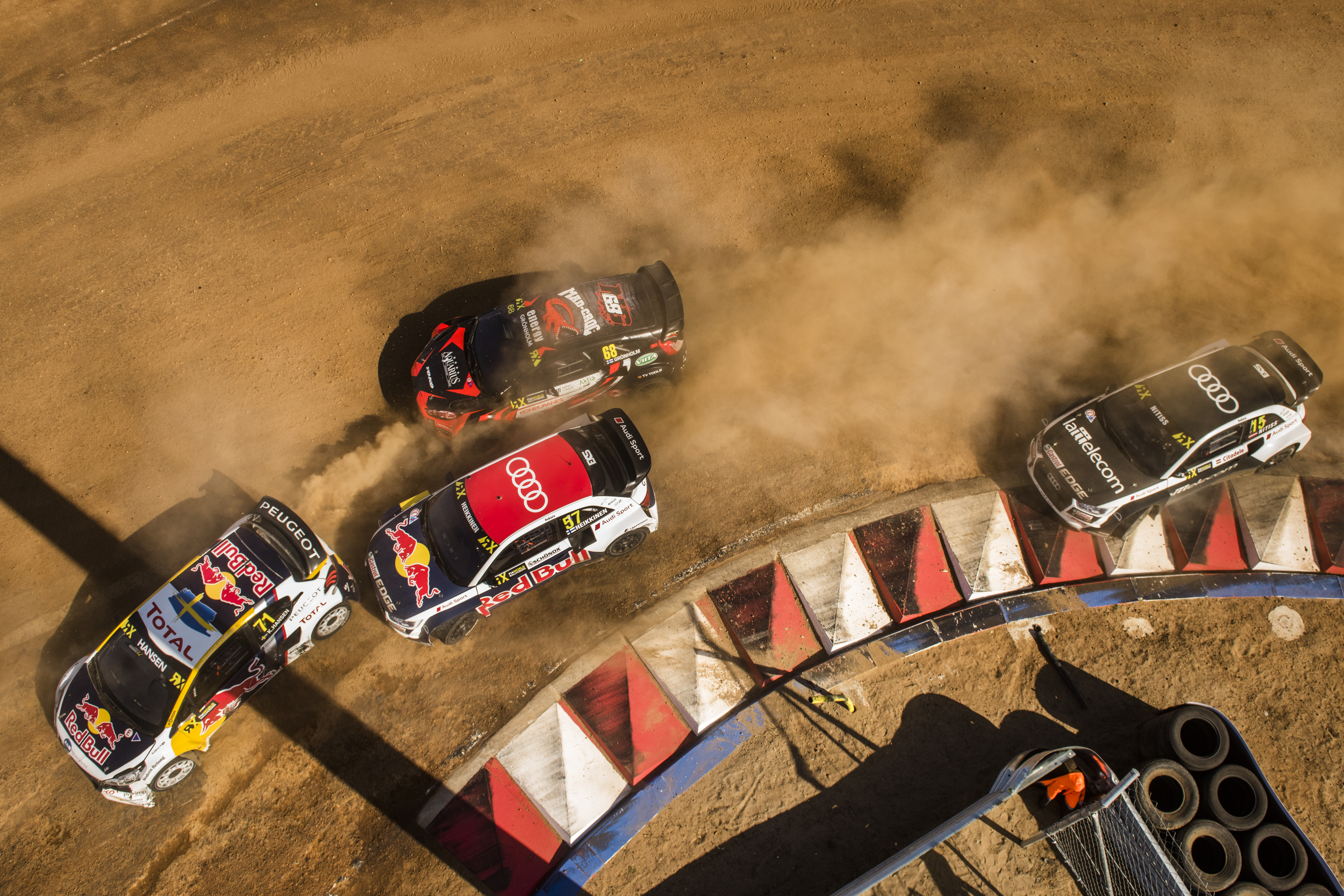 2017 FIA World Rallycross Championship // Round 12, Cape Town // Credit: EKS/Jaanus Ree